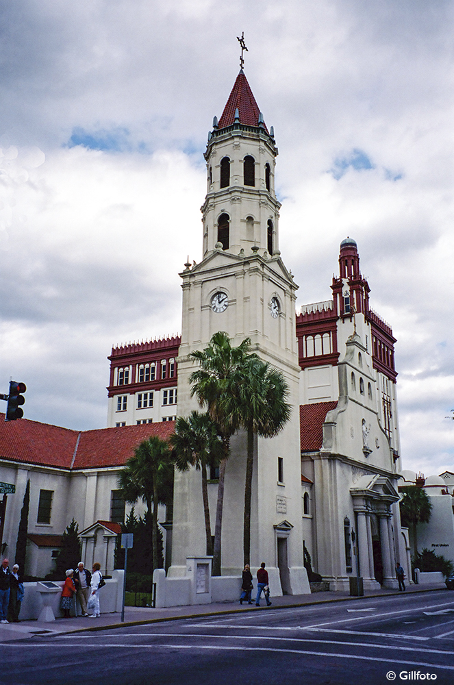 Cathedral St Augustine